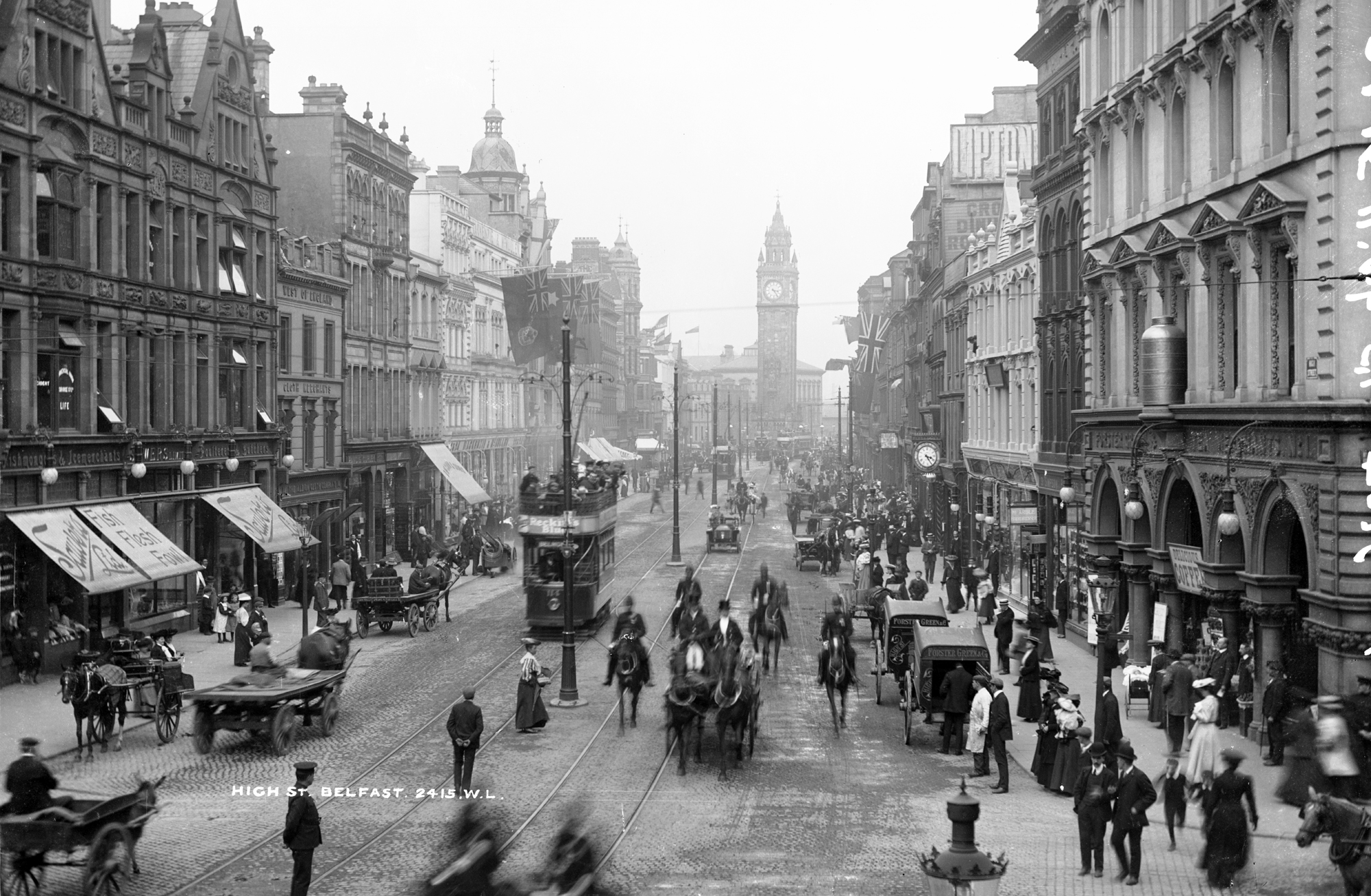 Photo by Robert French (1841–1917) of High Street, Belfast, looking east towards the Albert Memorial. This photo is part of the Lawrence Photograph Collection, named after William Lawrence (1840–1932). Date: Circa 1906. NLI Ref.: L_CAB_02415